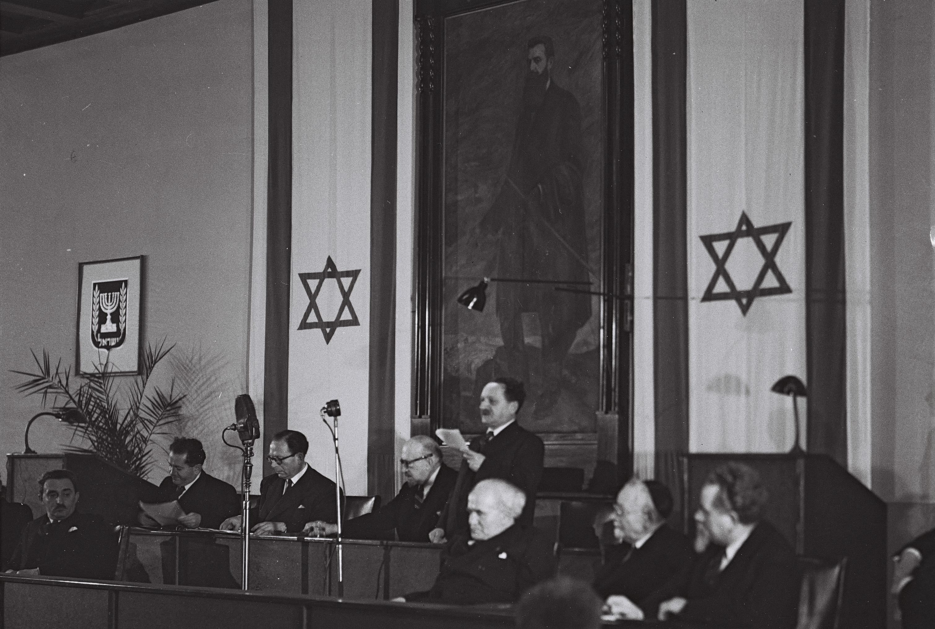 Speaker of the Knesset Yosef Sprinzak speaking at the first meeting of the Constituent Assembly, at The Jewish Agency building in Jerusalem.